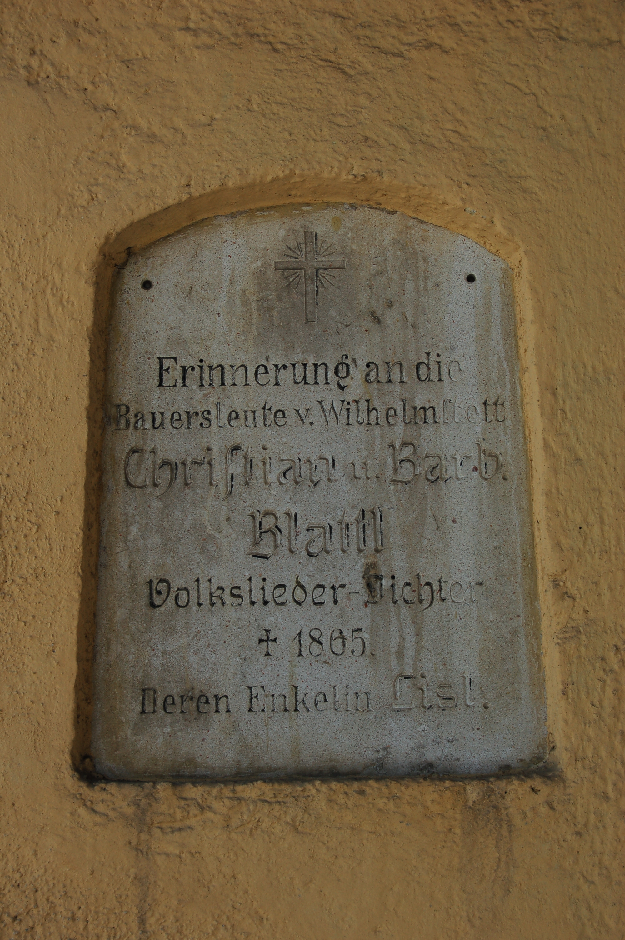 Memorial for Christian Blattl II. his wife Barbara and his doughter Elisabeth in St. Johann in Tirol